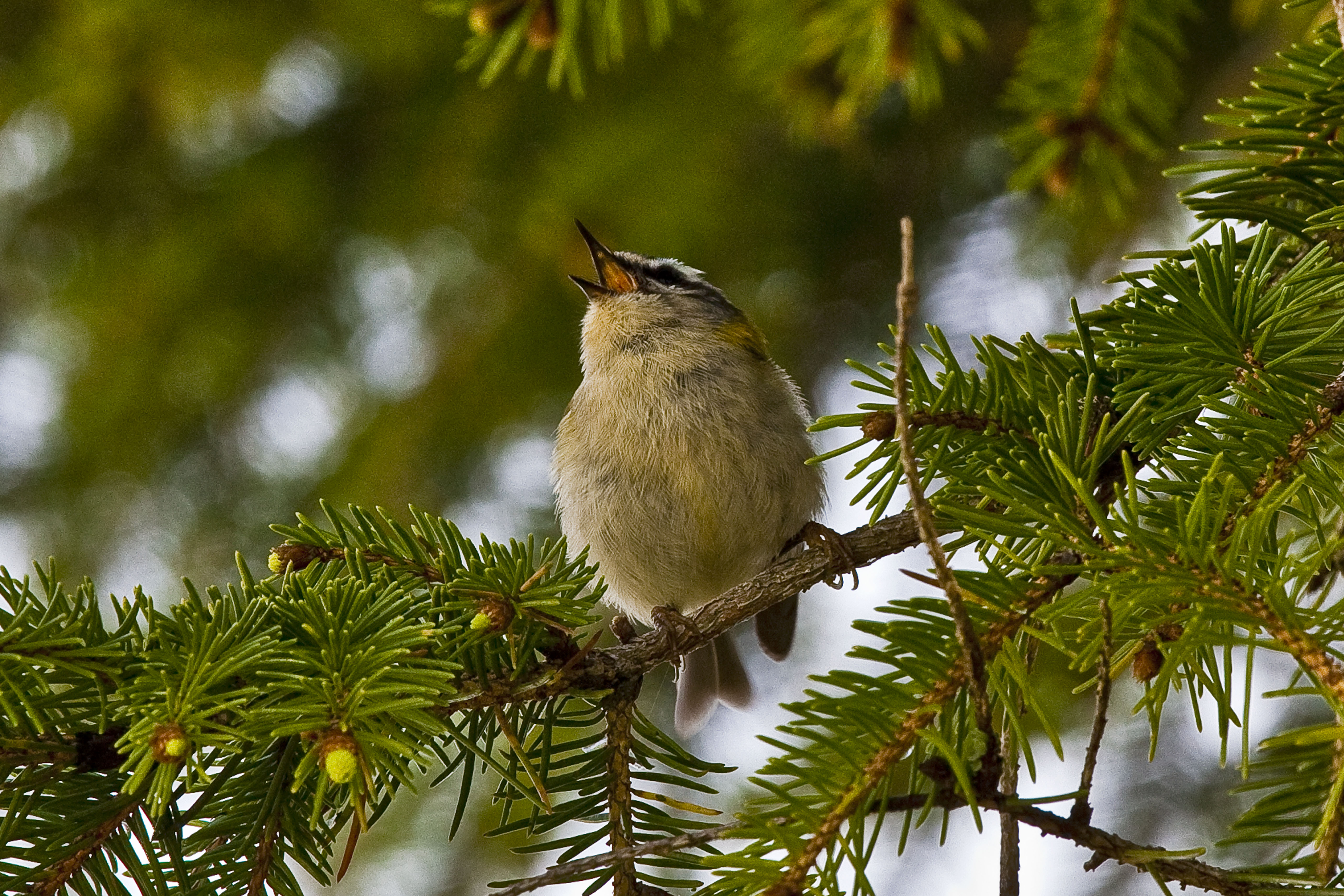 A Common Firecrest singing in a conifer tree in Galicia, Spain.